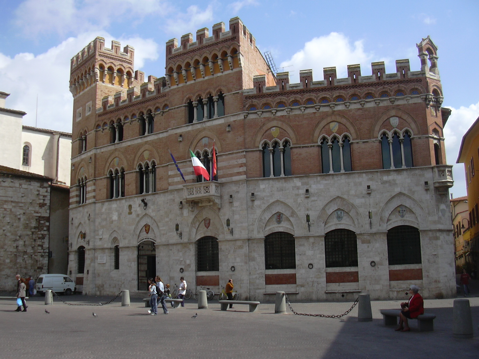 Grosseto /Tuscany, Town hall.